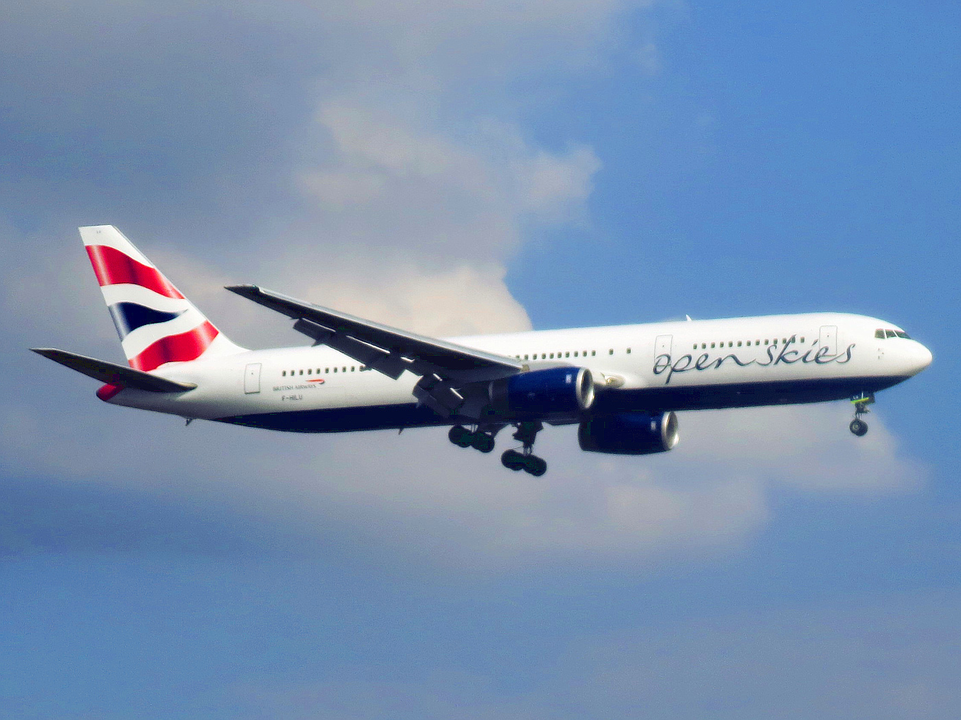 An OpenSkies Boeing 767-300(ER) is on final approach to Newark Liberty International Airport runway 22L, passing over Port Street and Brewster Road. There is a small parking lot to the right, and the threshold for touchdown is just beyond that.